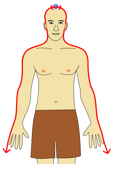 Upper external axiatonal line, first used by Janet Di Giovanna. Based on descriptions in Arluck Scheinbaum, Michael, Getoff, David (2005). Reduce Blood Pressure Naturally: A Complete Approach for Mind, Body, and Spirit.Xlibris Corporation, pg 356.